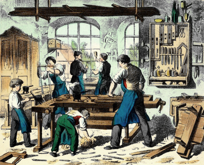 The joiner